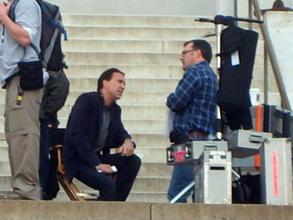 Nicholas Cage @ Lincoln Memorial